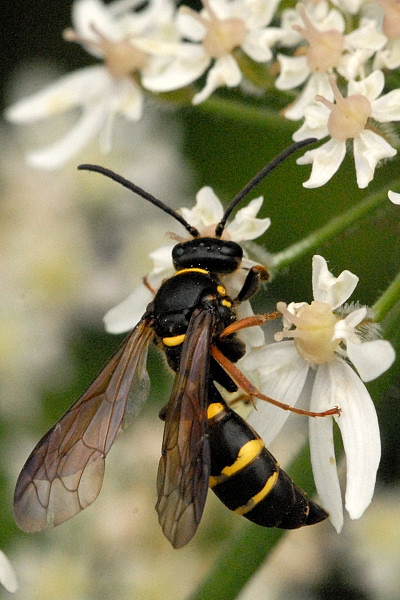 Argogorytes mystaceus from Commanster, Belgian High Ardennes .